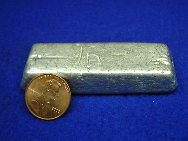 Indium Metal and a 1 Cent („Penny“)